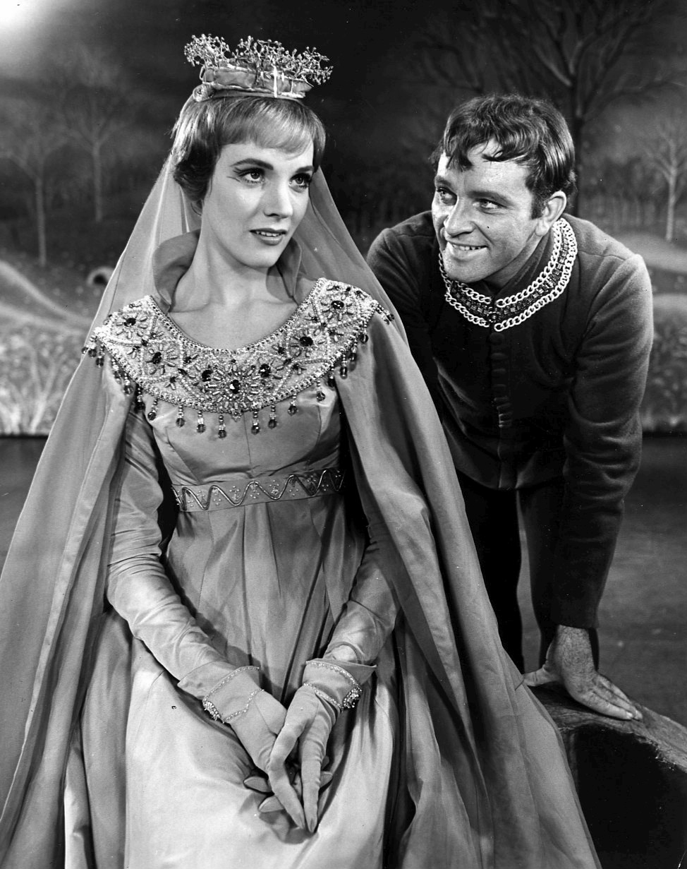 Julie Andrews and Guenevere and Richard Burton as Arthur in a scene from the original Broadway production of Camelot.